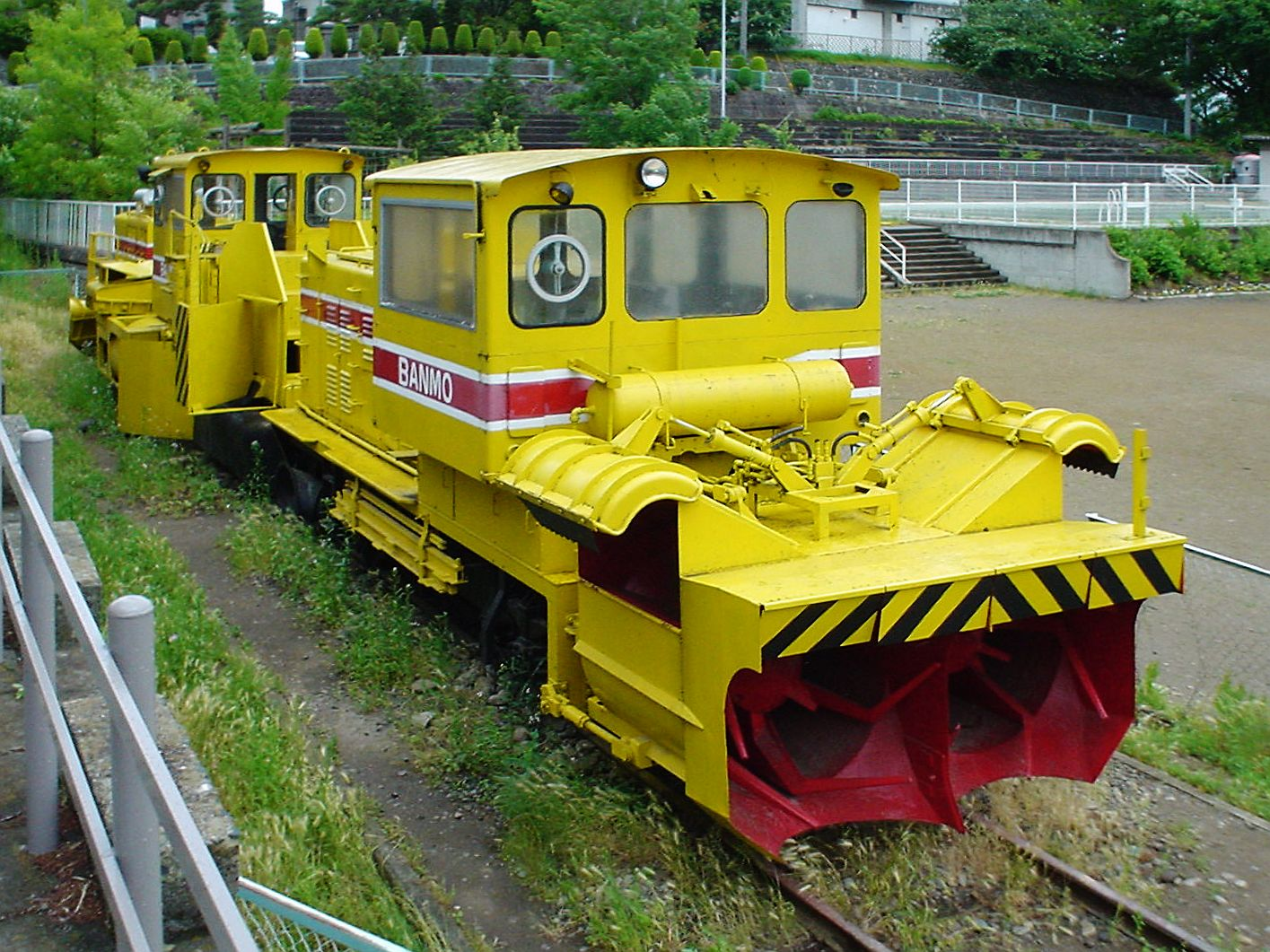 Joyama Elementary School (Nagano, Nagano) Banmo.